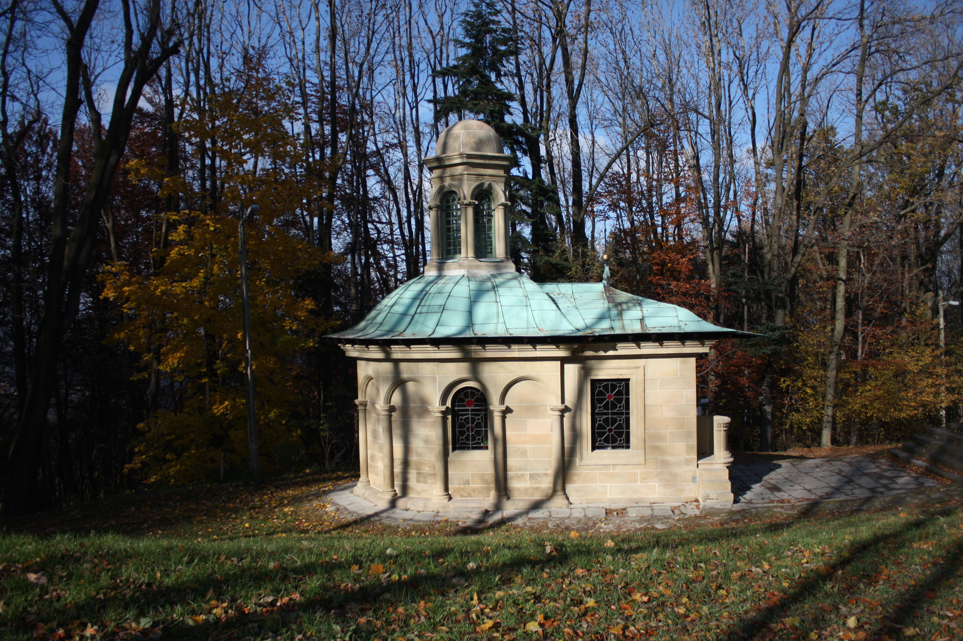 Kalwaria Zebrzydowska, Pathways of Passion of Christ, Chapel of Entombment of Christ